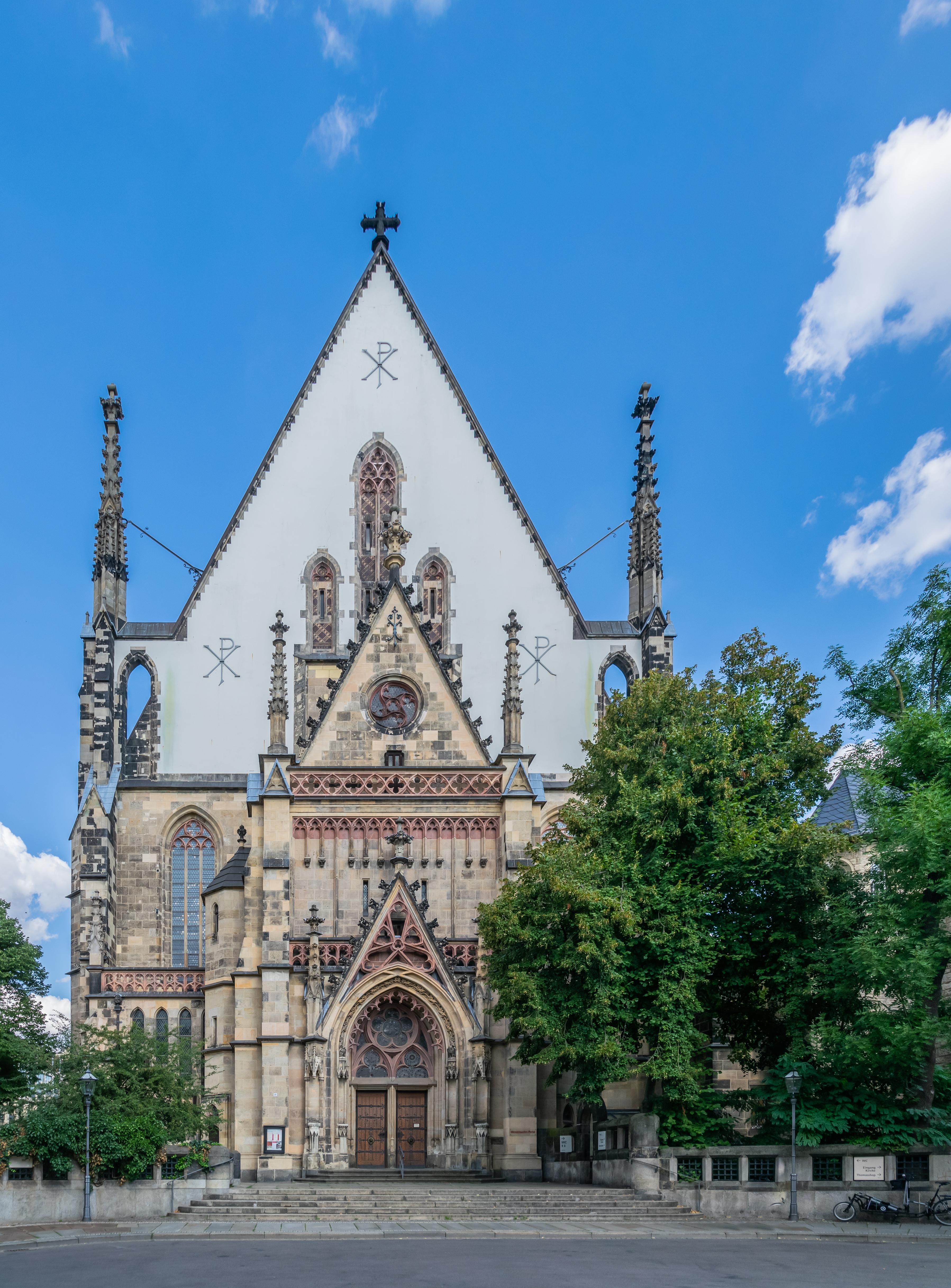 Western facade of the Saint Thomas church in Leipzig, Saxony, Germany